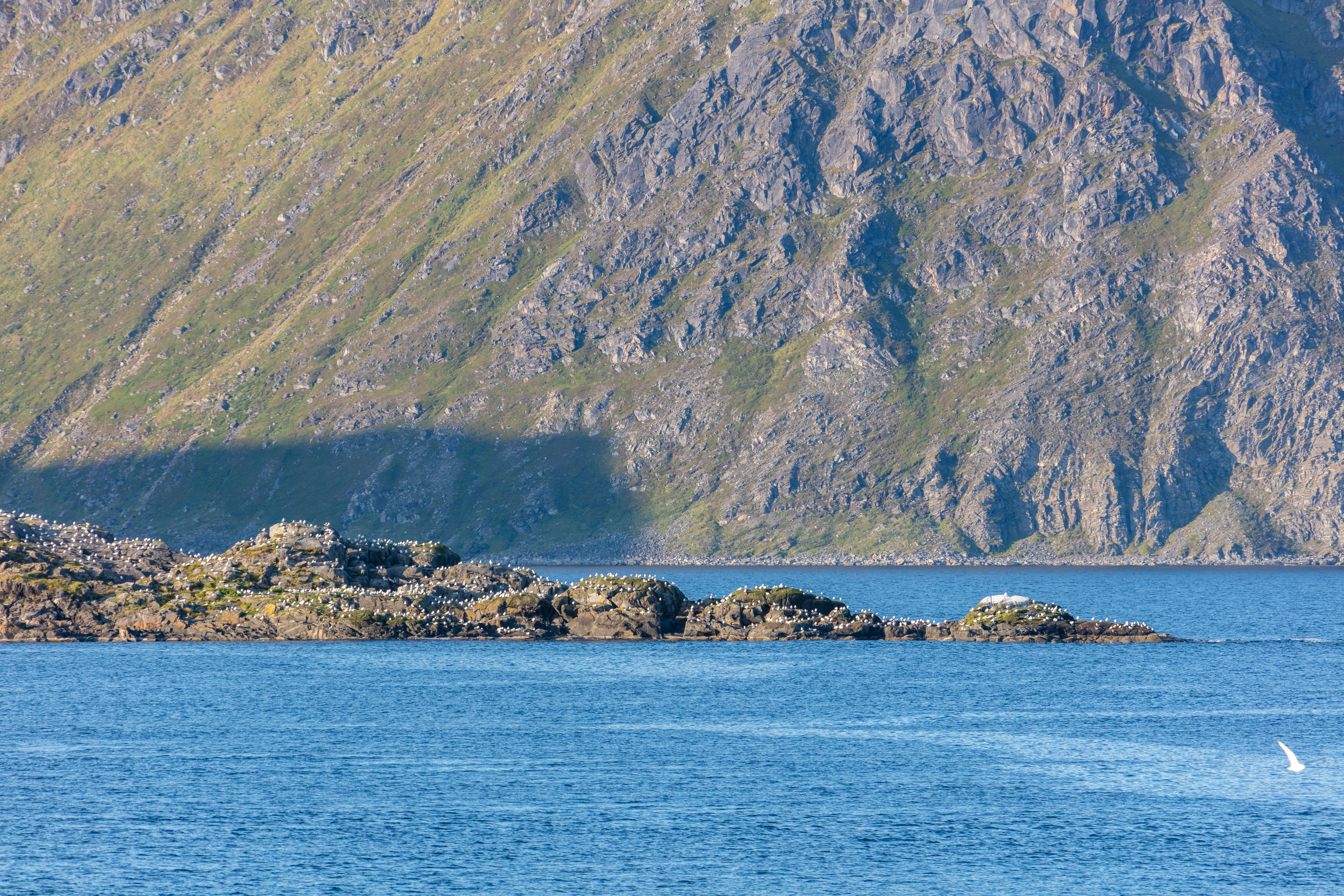 Coast of Kamøyvær, Norway